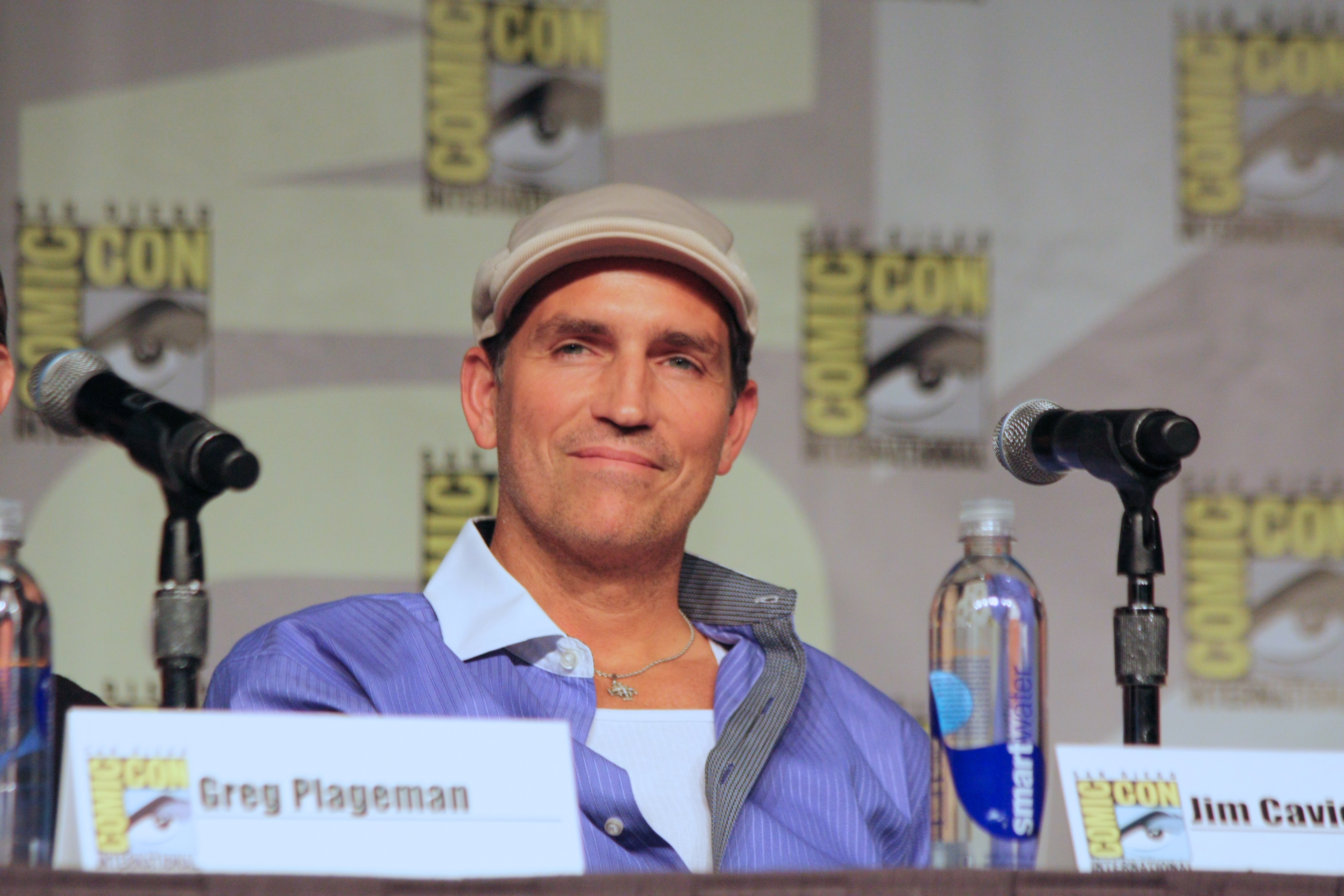 Jim Caviezel at the SDCC 2013